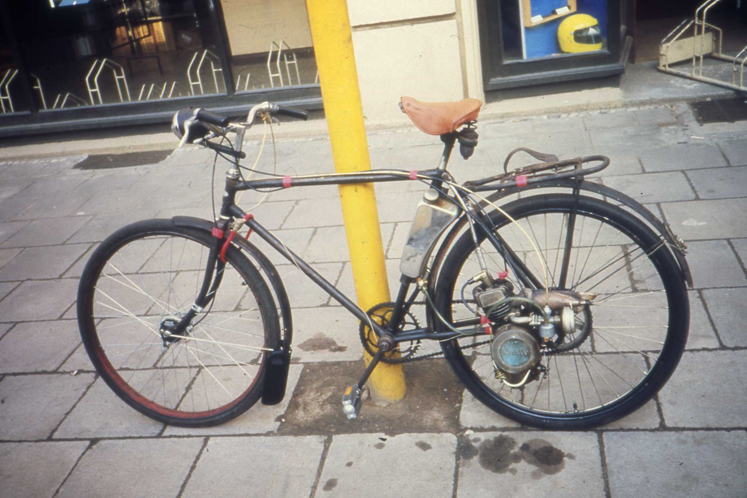 The engine is marked MAW. That it was found in Magdeburg is significant because the MAW Fahrradanbaumotor was made there by the VEB Messegeräte und Armaturenwerke Karl Marx in Magdeburg Buckau. There is some information about AMO and MAW cycle motors in English in this site which states that these motors were produced here between 1954 and 1959. The tell-tale pool of oil on the pavement indicates that this bike was often left here. The engine was 50cc ....lots of nice pictures and date on that site. Known in common parlance as the Hühnerschreck or chicken scarer (thanks to @H.-D.N. , see below) See here for a different view on Black and White FP4 film rather than colour slide.